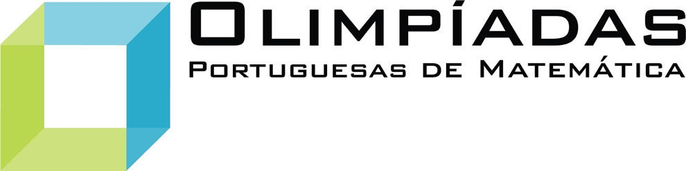 Logotype of the Portuguese Mathematical Olympiad (Olimpíadas Portuguesas de Matemática - OPM)